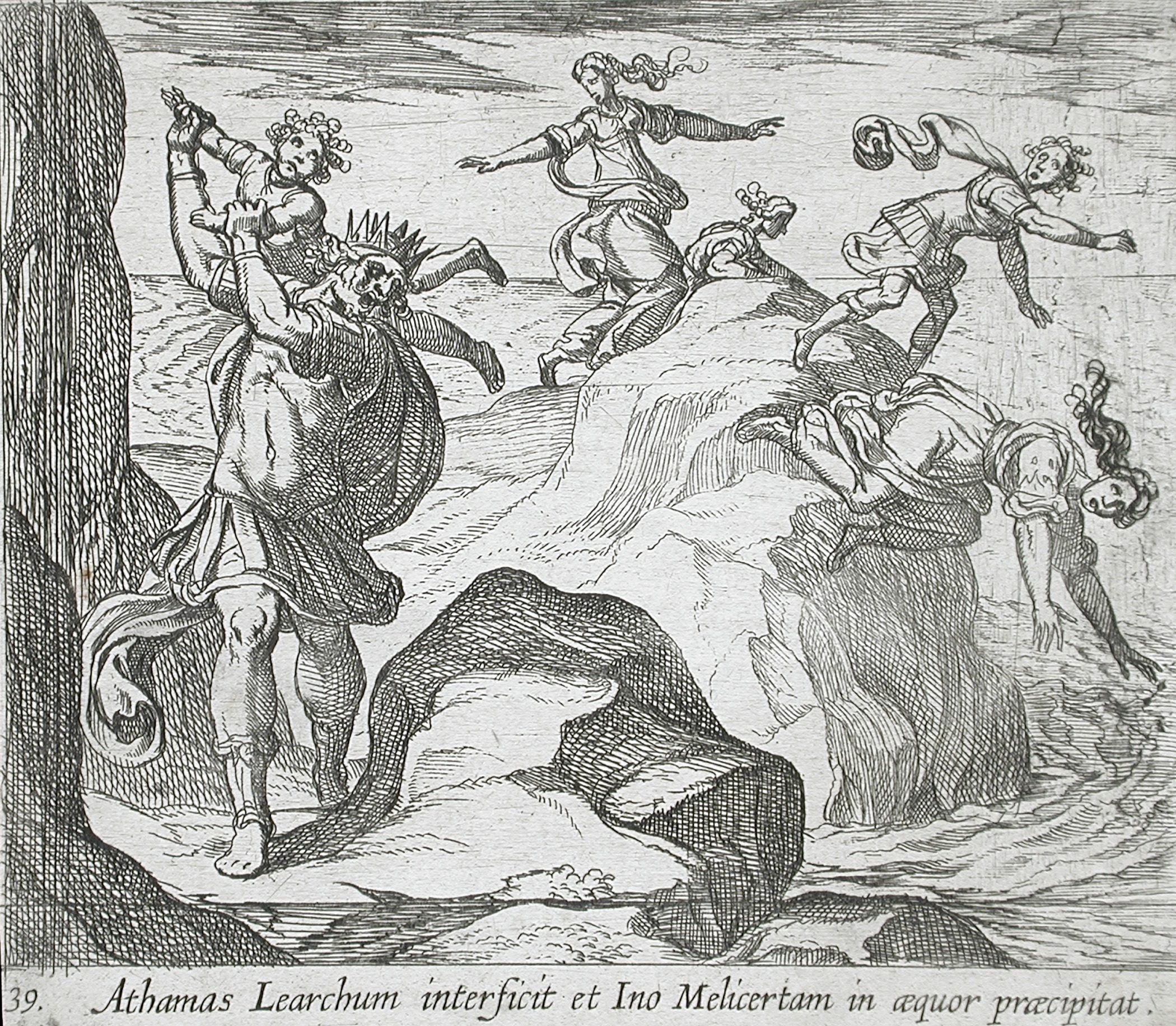 Italy, published 1606 Alternate Title: Athamas Learchum interficit et Ino Melicertam in aequor praecipitat Series: The Metamorphoses of Ovid, pl. 39 Edition: Second edition Prints; etchings Etching Los Angeles County Fund (65.37.123) Prints and Drawings